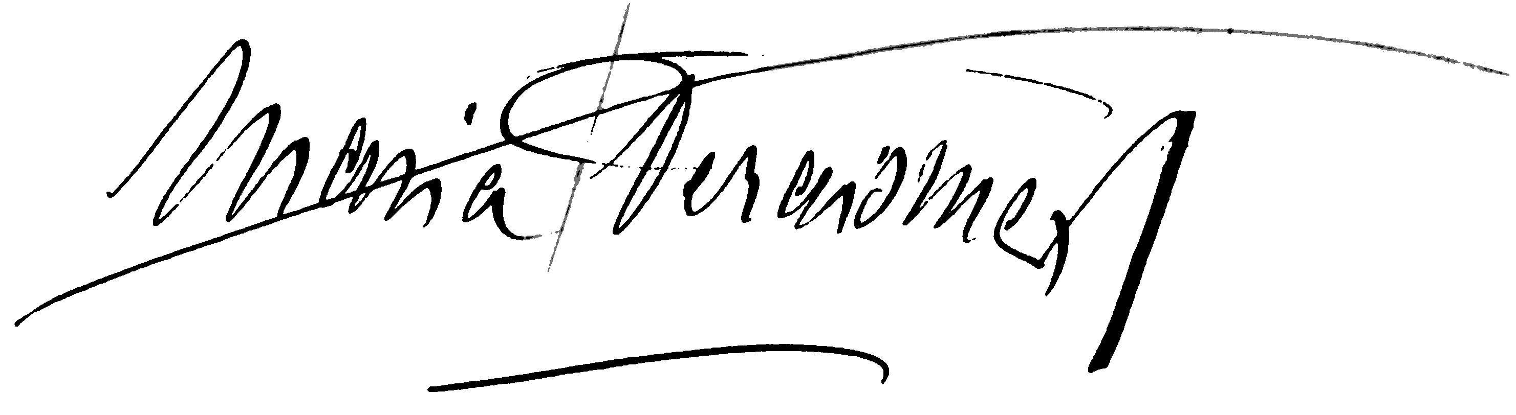 Signature de Maria Deraismes sur une lettre autographe conservée à la Bibliothèque nationale de France, mise à disposition sur Gallica